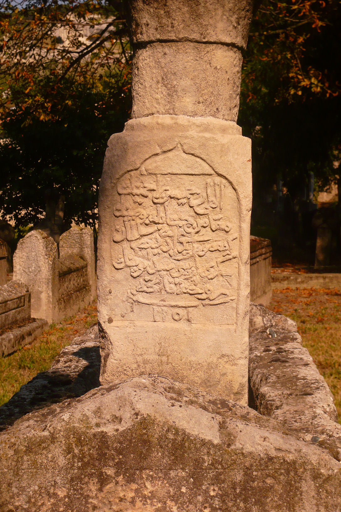 Khans cemetery in Bakhchisaray Palace